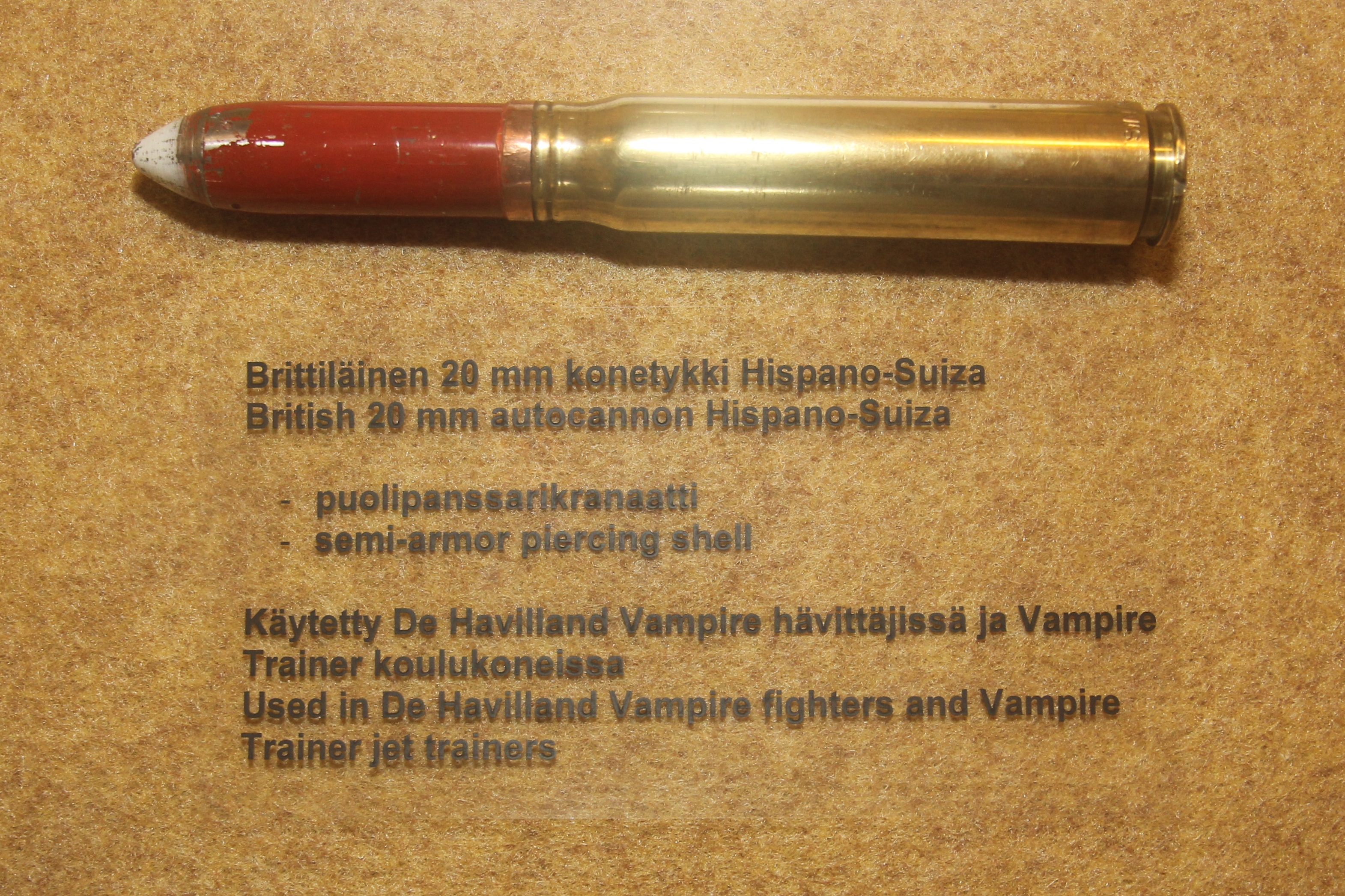 British Hispano-Suiza HS.404 cannon 20 mm semi-armor piercing shell in the Aviation museum of Central Finland.